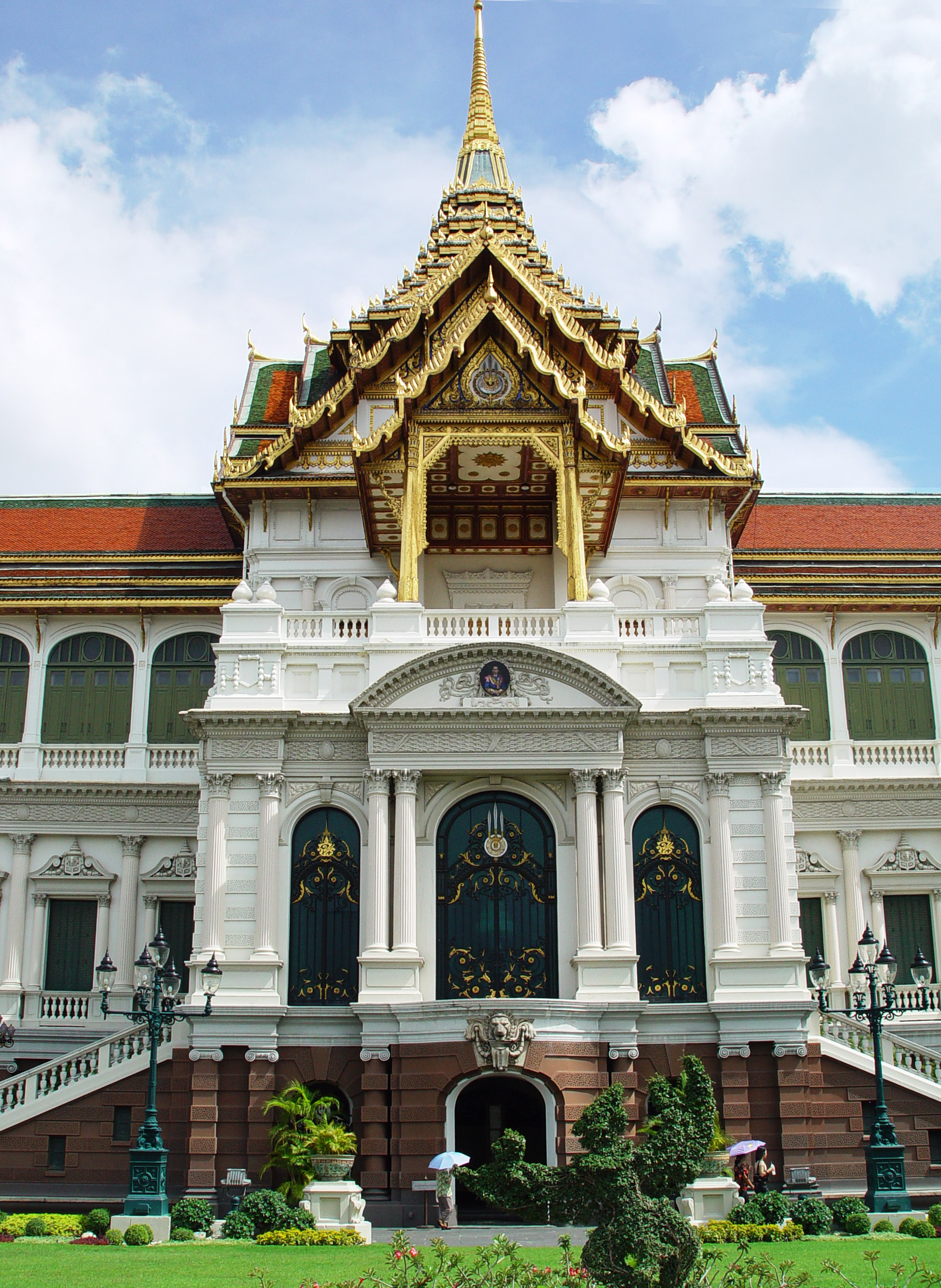 Chakri Mahaprasad Throne Hall in Grand Palace, Bangkok I have taken this photo myself in mid en:2004 with my own Sony DSC-707.